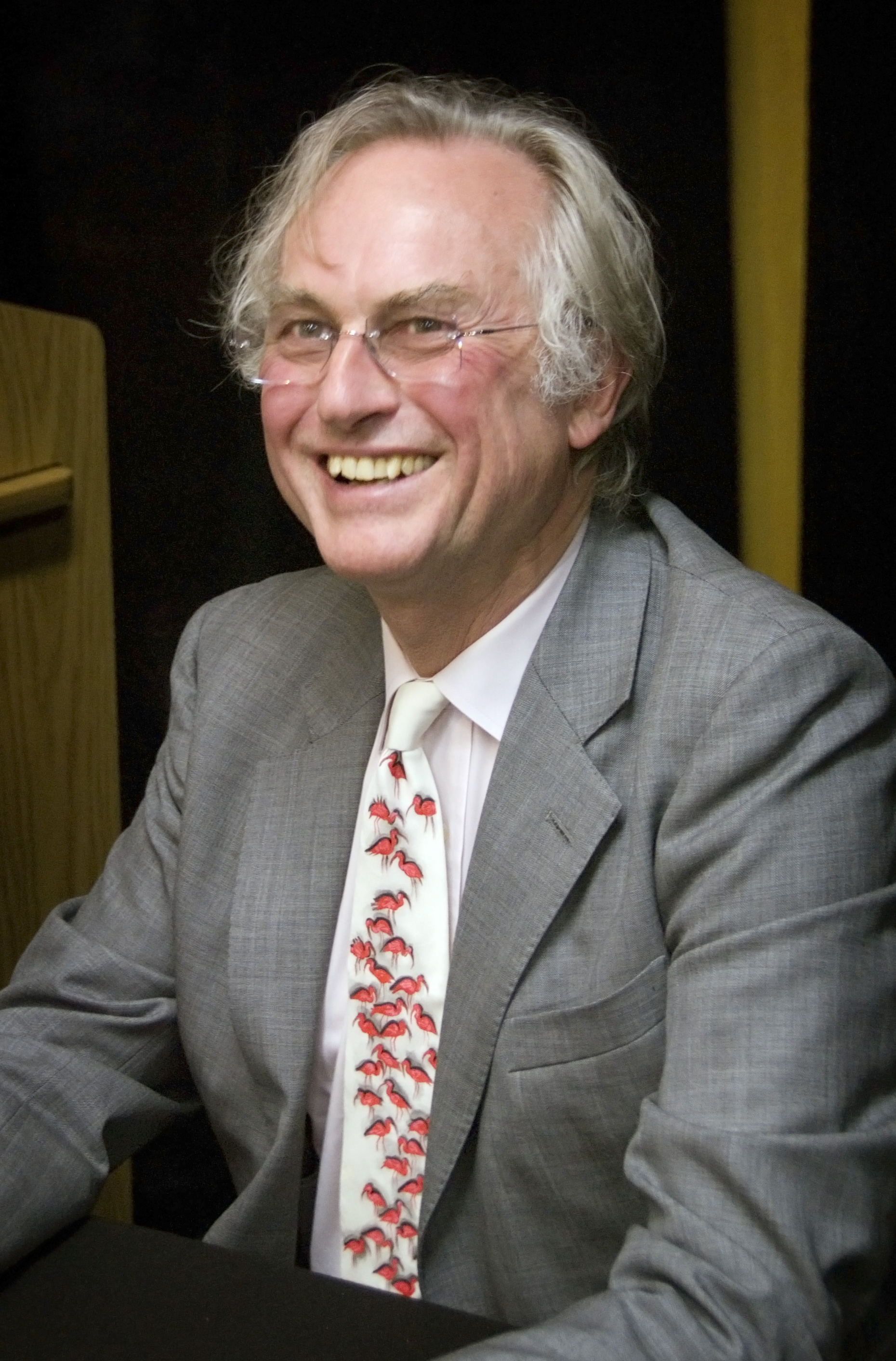 Richard Dawkins signing his book The Greatest Show on Earth: The Evidence for Evolution at an event at Kepler's Books in Menlo Park.